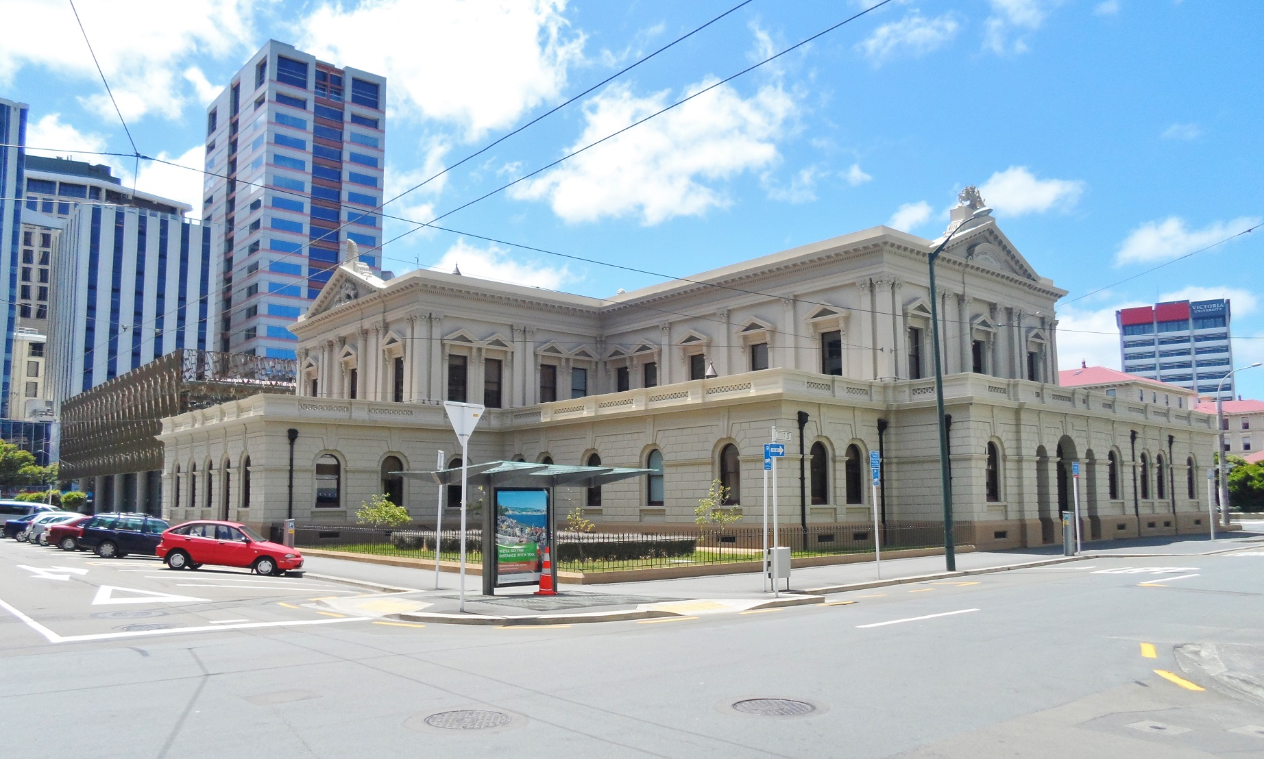 Old High Court building in Wellington, New Zealand in 2015.